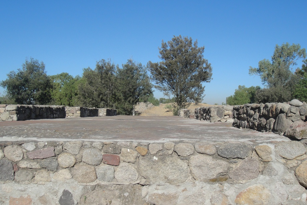 Huexotla, top of structure 2